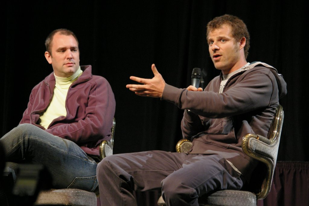 Matt Stone and Trey Parker at The Amazing Meeting on January 20, 2007